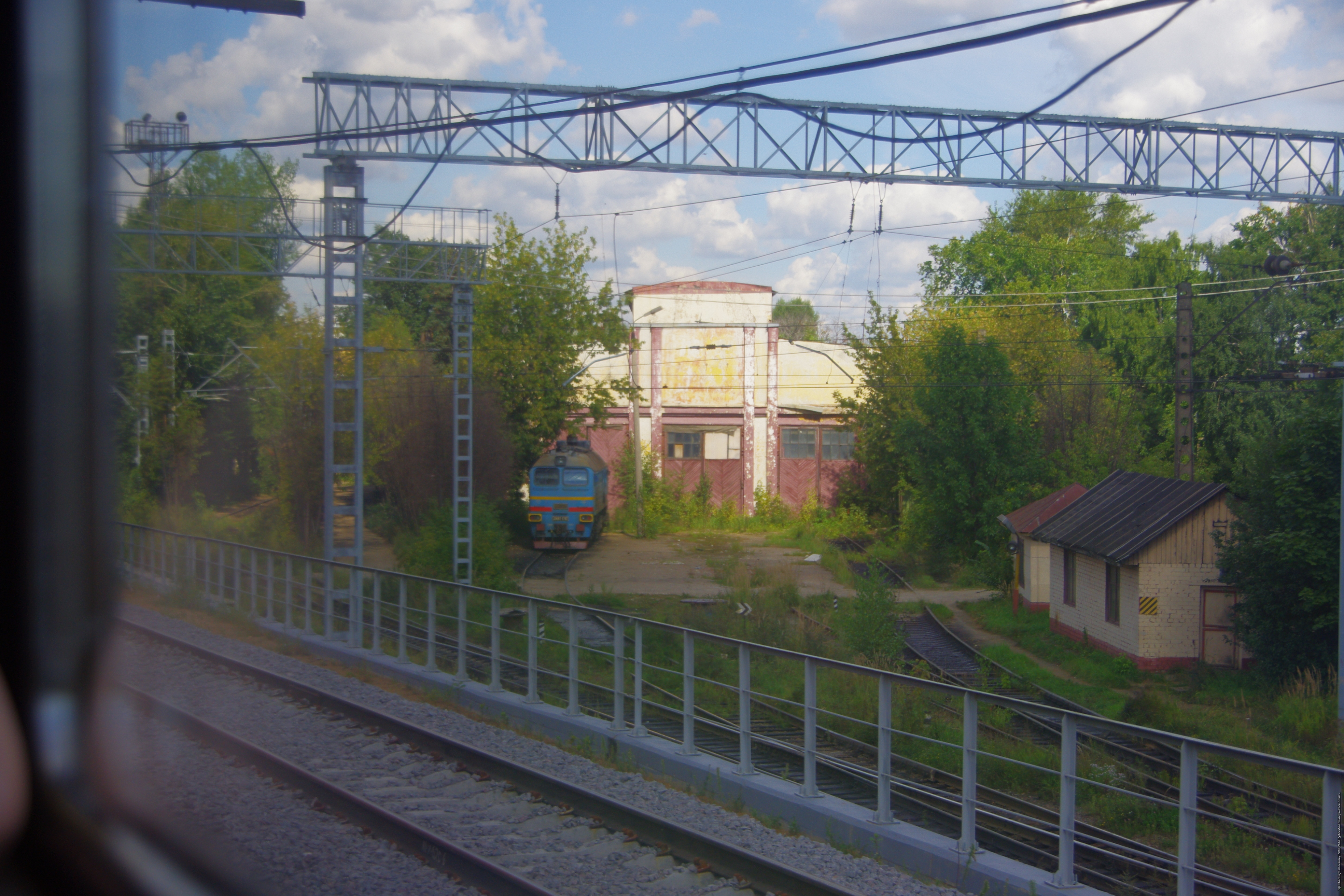 Khovrino District, Moscow, Russia